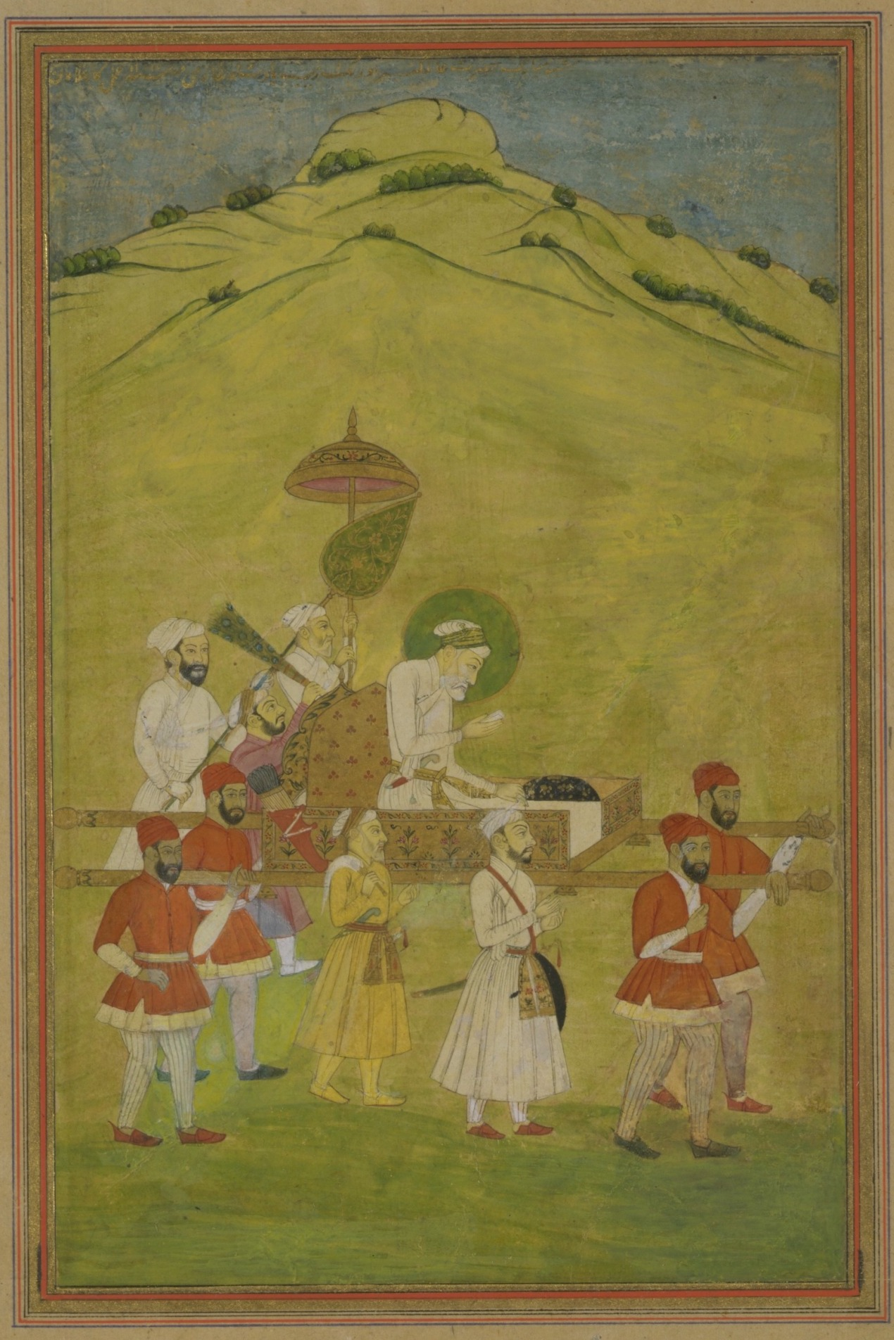 Object: Painting Date: 1698-1699 (made) Artist/Maker: Ghulaman (painted by) Materials and Techniques: Opaque watercolour and gold on paper Museum number: IM.234-1921 Gallery location: South Asia, room 41, case V Download image Summary More information Download PDF version The portrait of the Mughal emperor 'Alamgir is dated 1110 AH/1698-99, and therefore depicts him towards the end of his life. He is dressed entirely in white with no jewellery, in keeping with the austerity that characterised his personality in later years. He sits with hunched shoulders and his hands raised as if in prayer. Two attends follow him, bearing a parasol and an aftabgir, or sunshade, both emblems of royalty. The dated Persian inscription in gold at the top of the painting gives the emperor's titles and the name of the artist, Ghulaman.